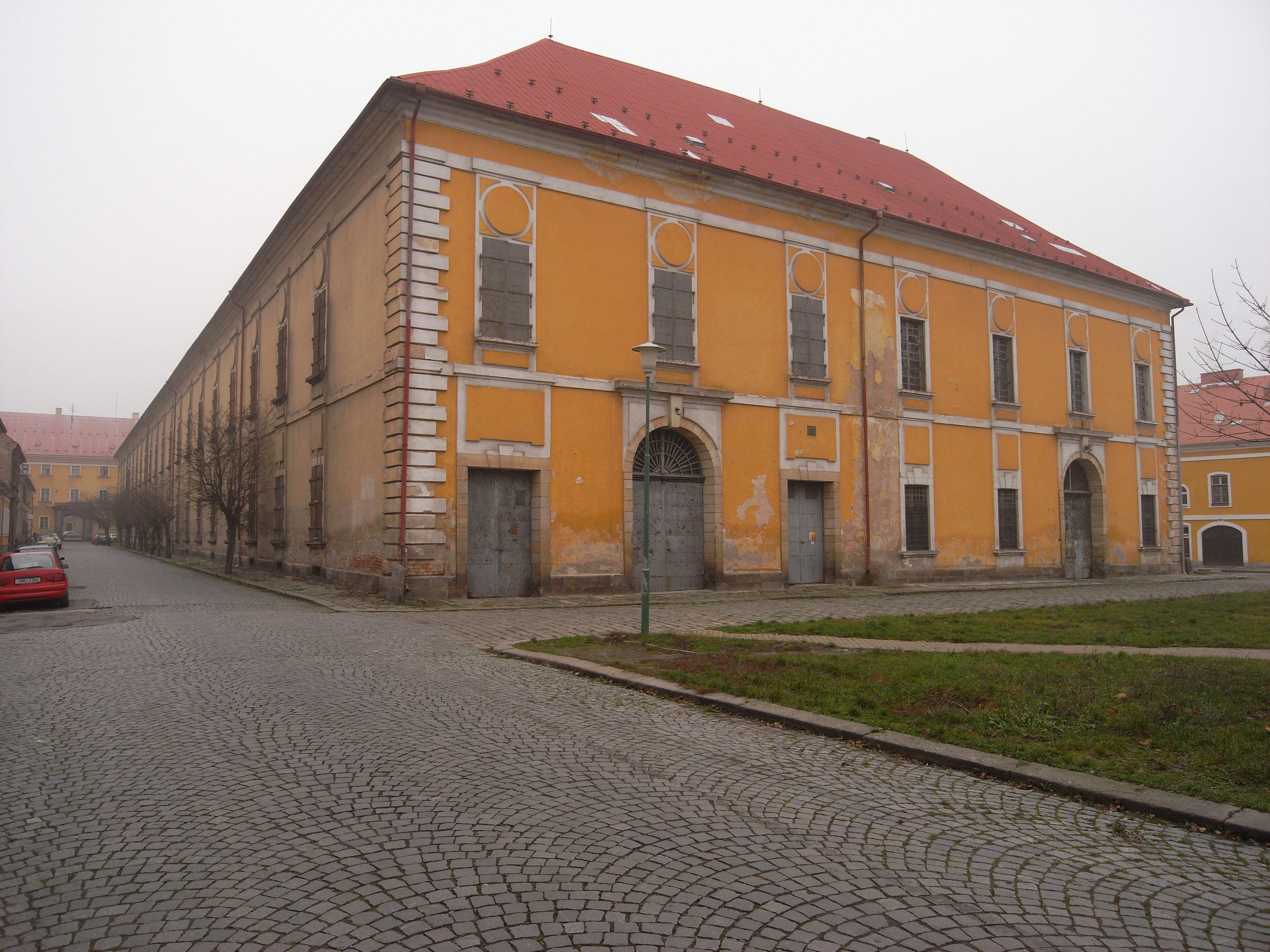 view of fortress Josefov (Jaroměř, Czech Republic)